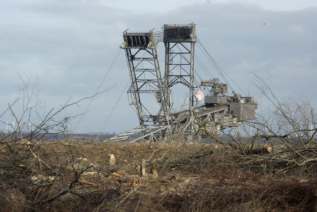 Hambach Forest clearcut area with RWE's lignite mine and one of its diggers in the background.